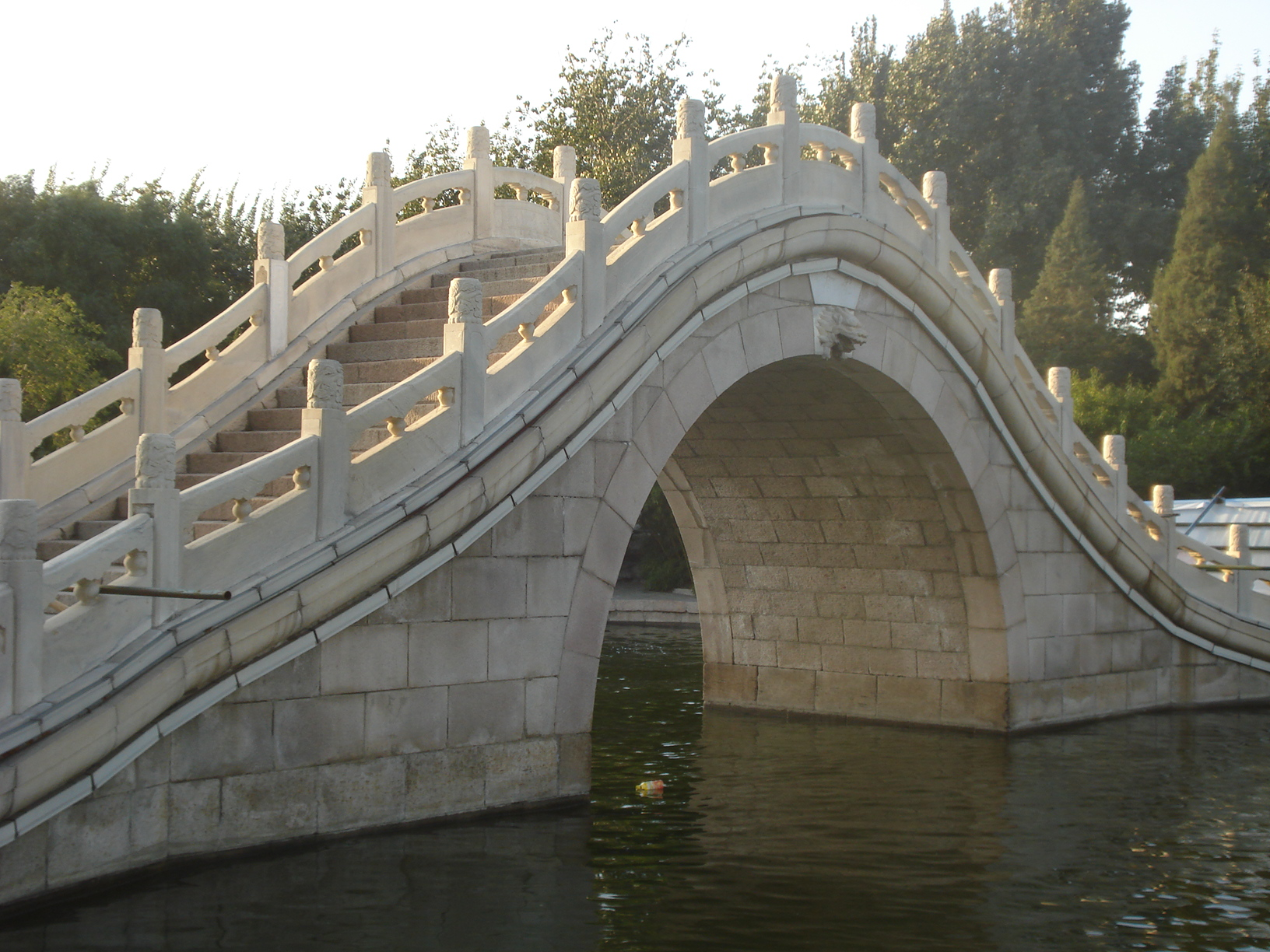 A stone moon bridge at the Longtan Park in Beijing